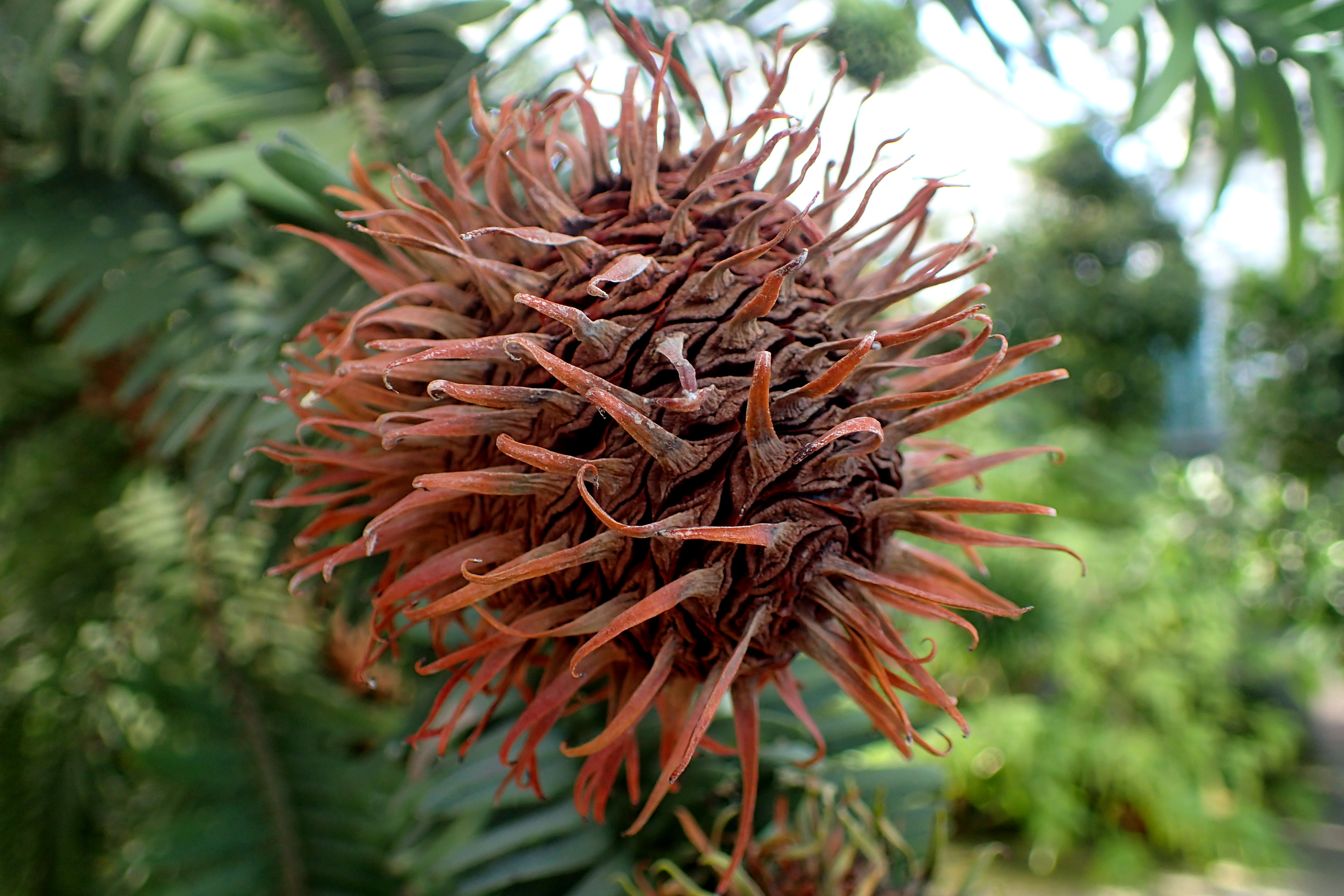 Wollemia nobilis in PAN Botanical Garden in Warsaw